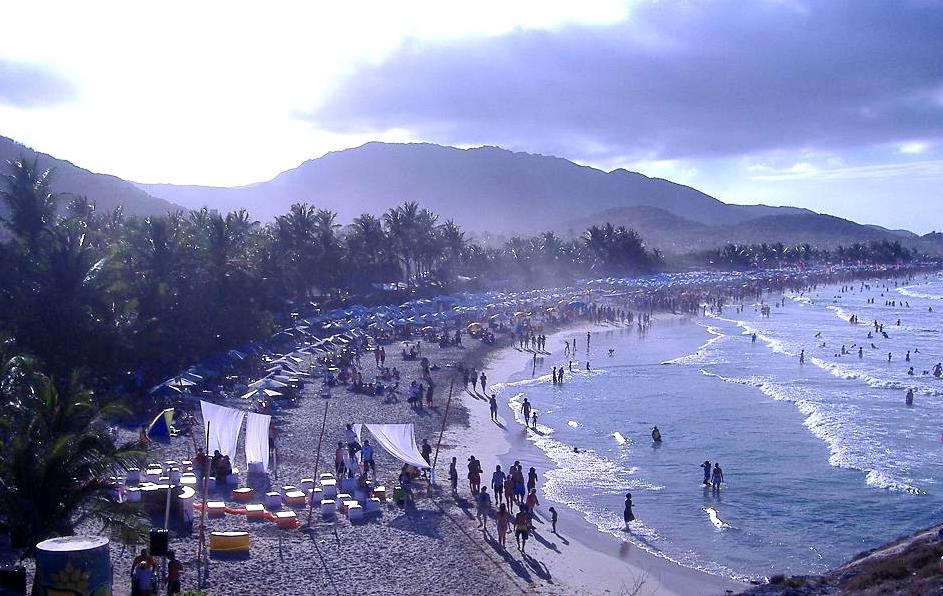 Playa Parguito, Margarita Island.